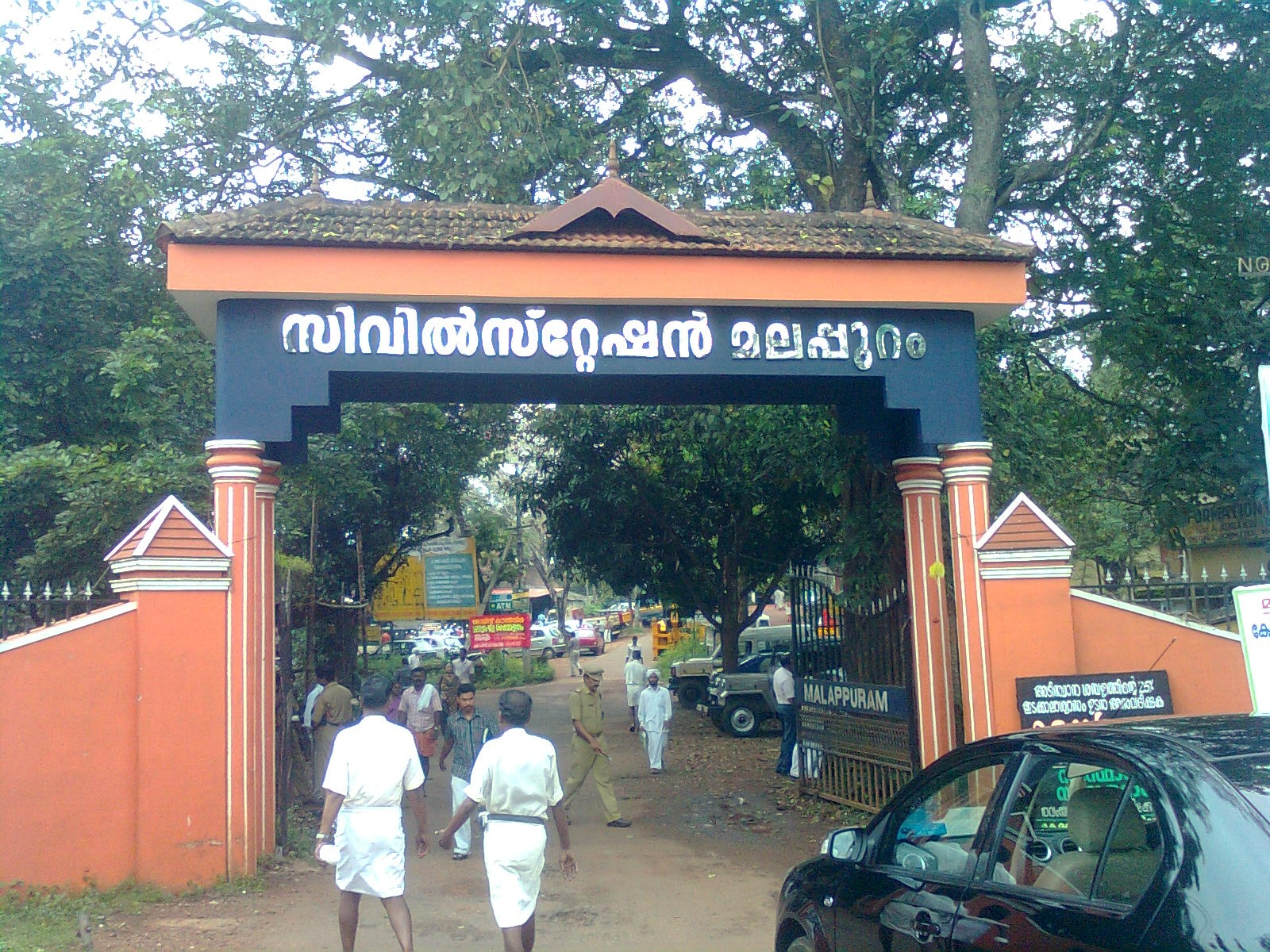 Malappuram Collectrate